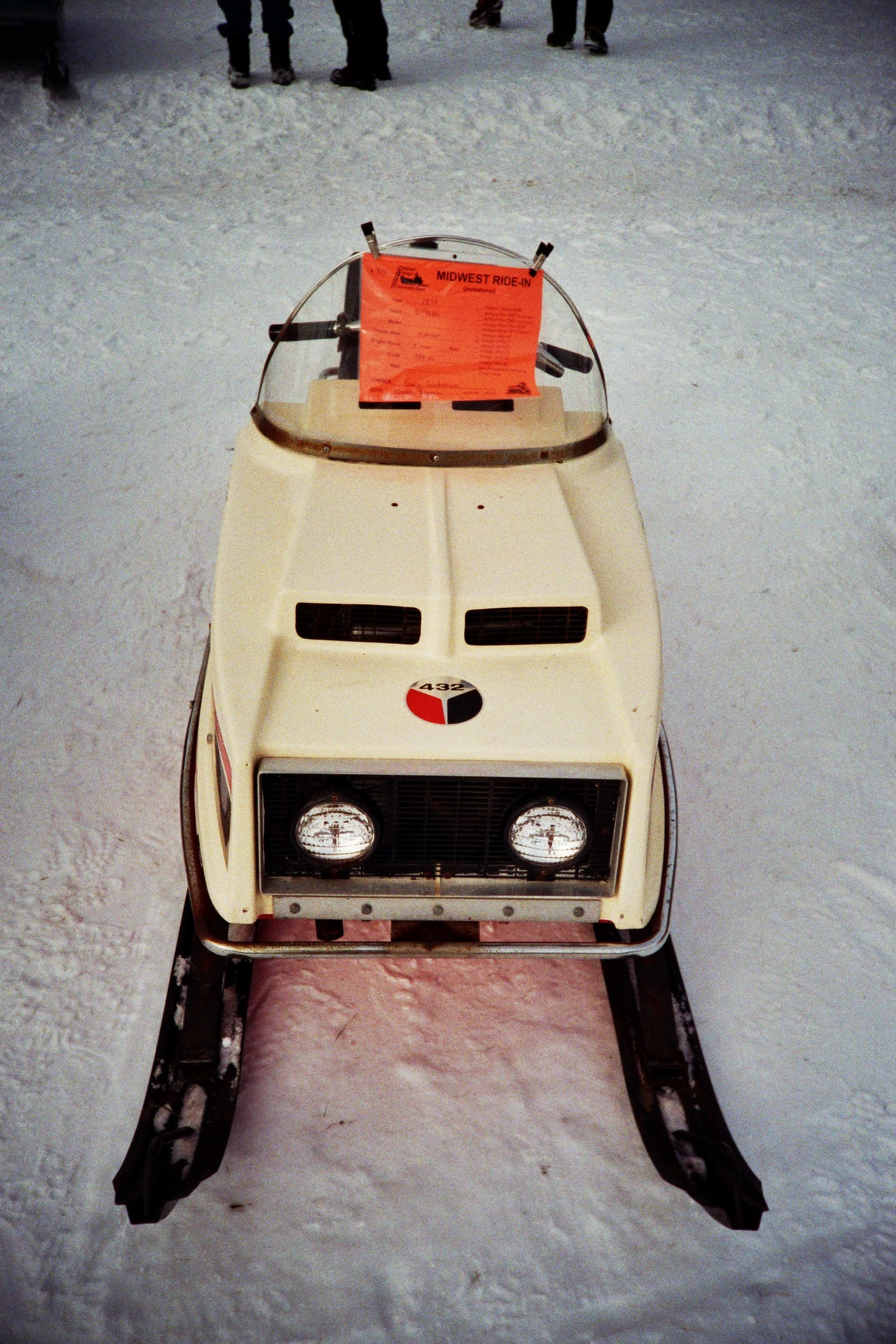 A 1971 Gilson 432 snowmobile, manufactured by Gilson Brothers Co. Photographed in Waconia, Minnesota.